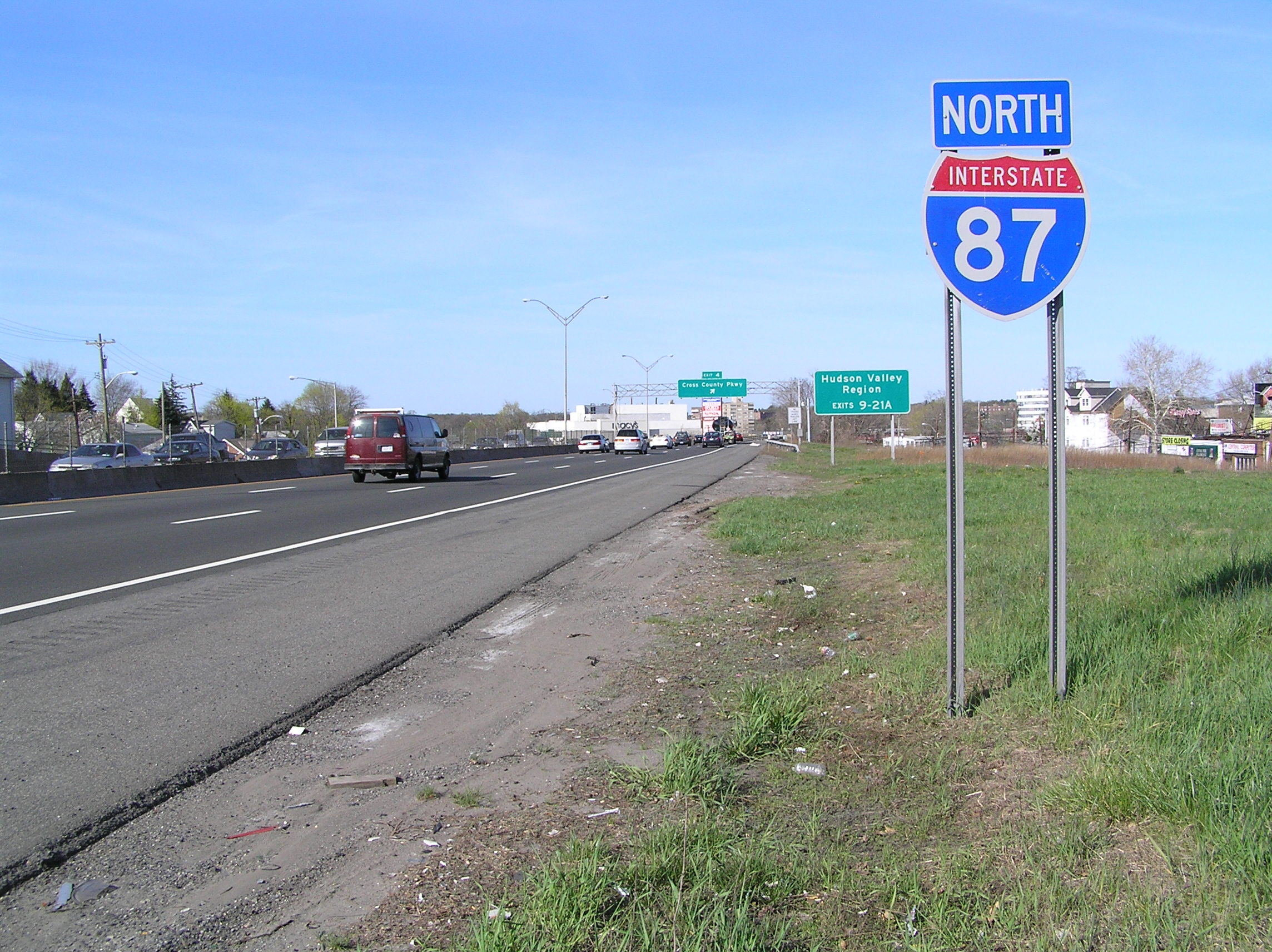 I took this photograph of the New York State Thruway in Yonkers.